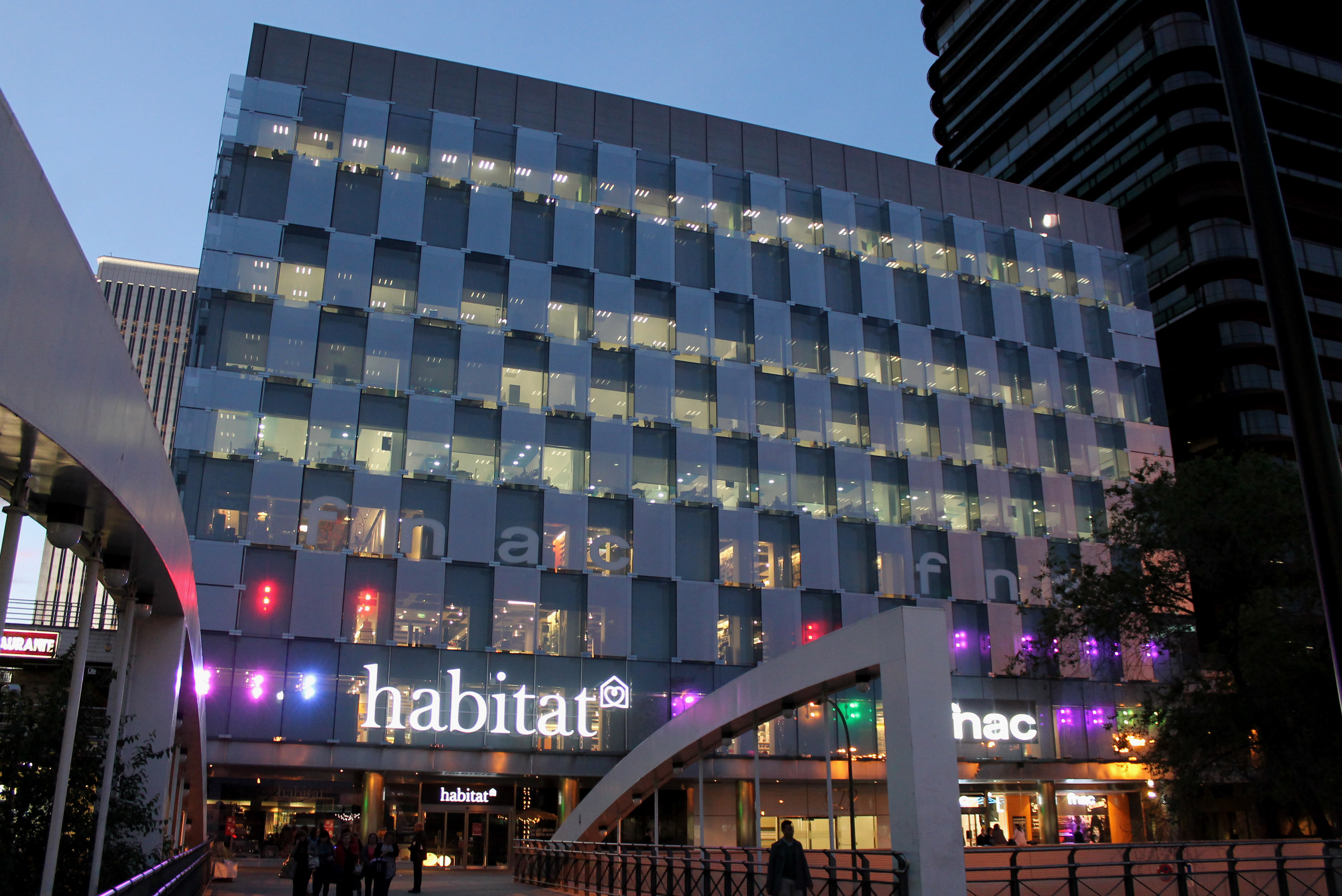 View of Castellana 79 building in Madrid (Spain).